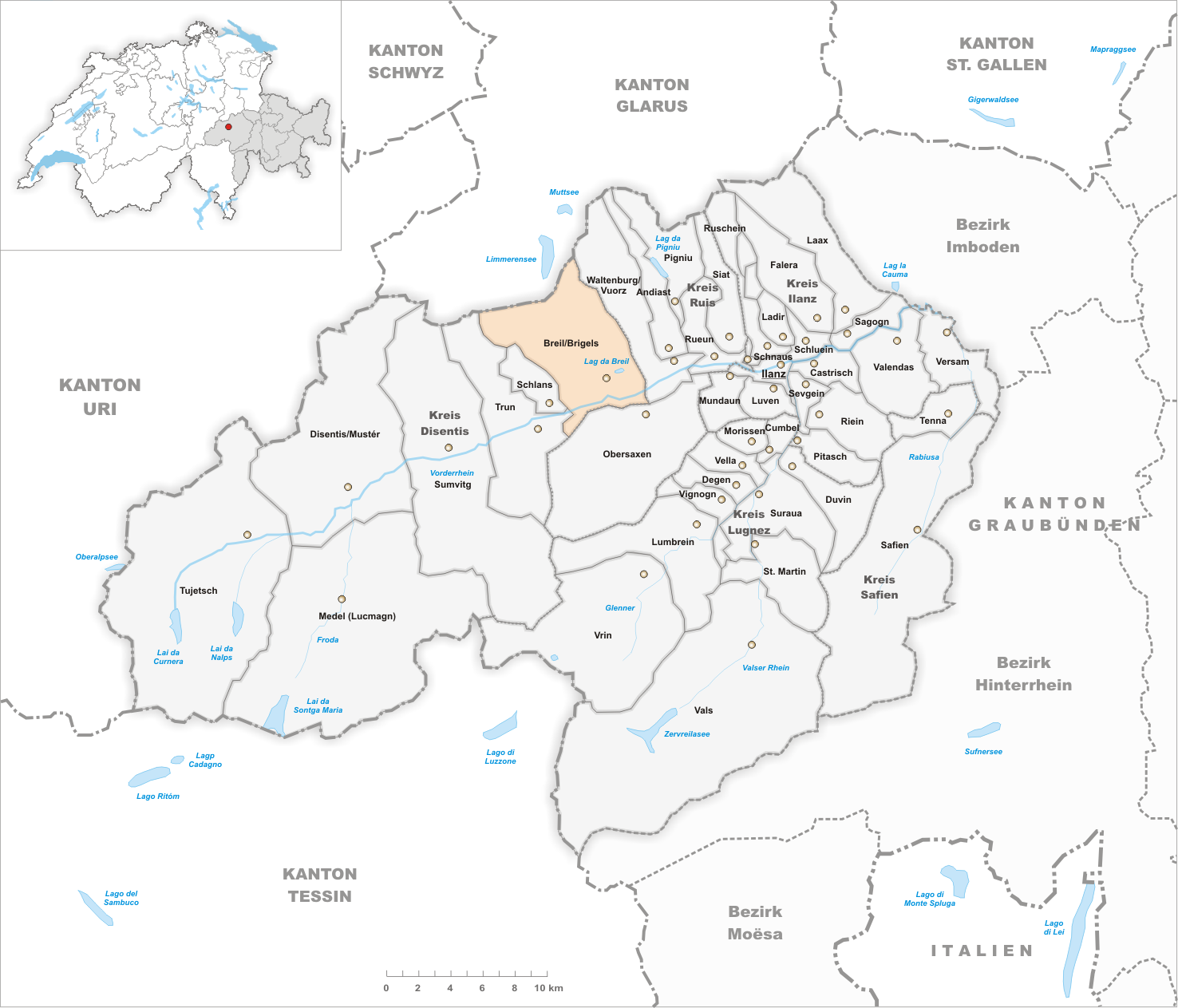 Municipality Breil/Brigels